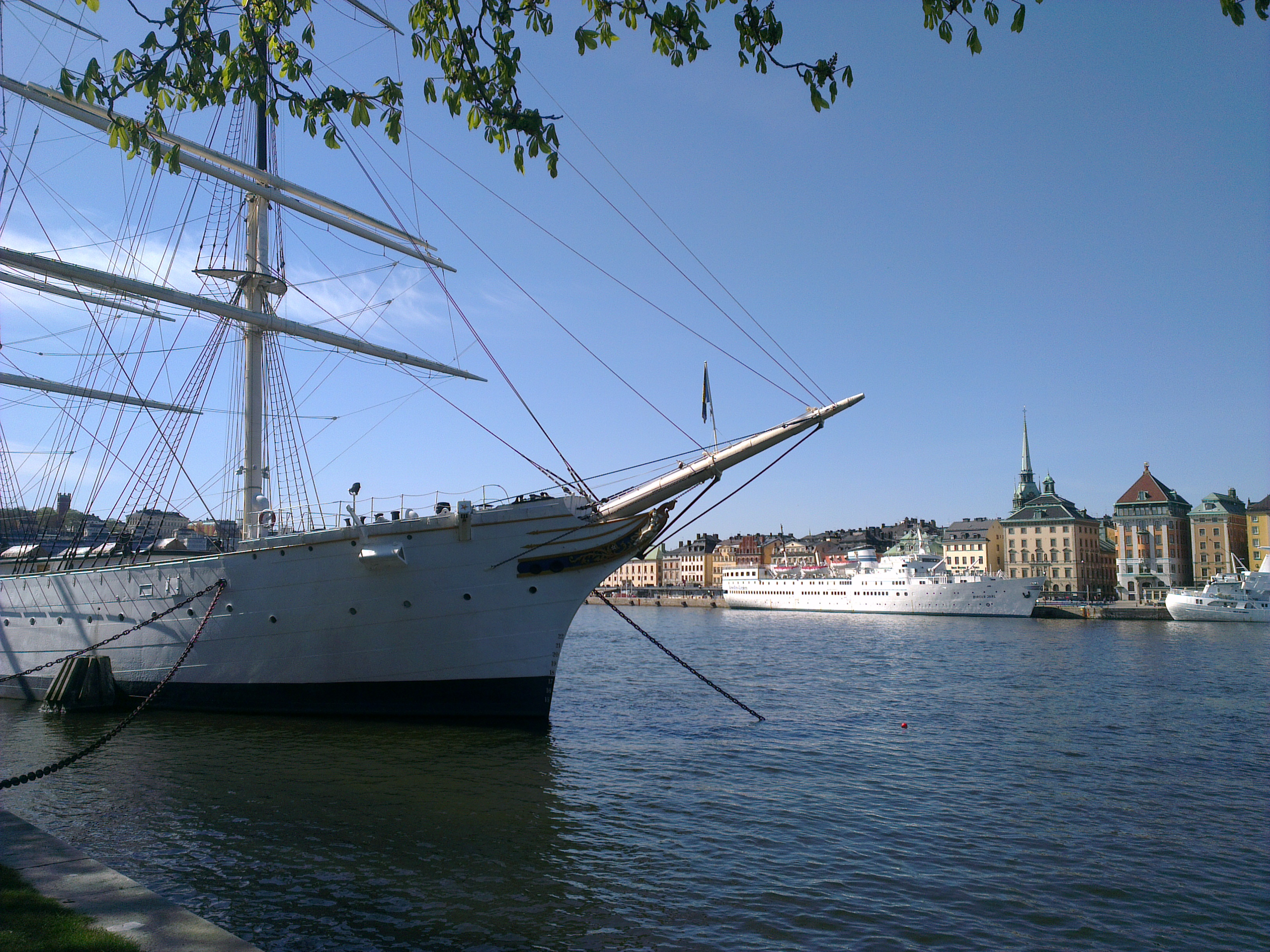 This image shows the view from Skeppsholmen island, Stockholm, Sweden.